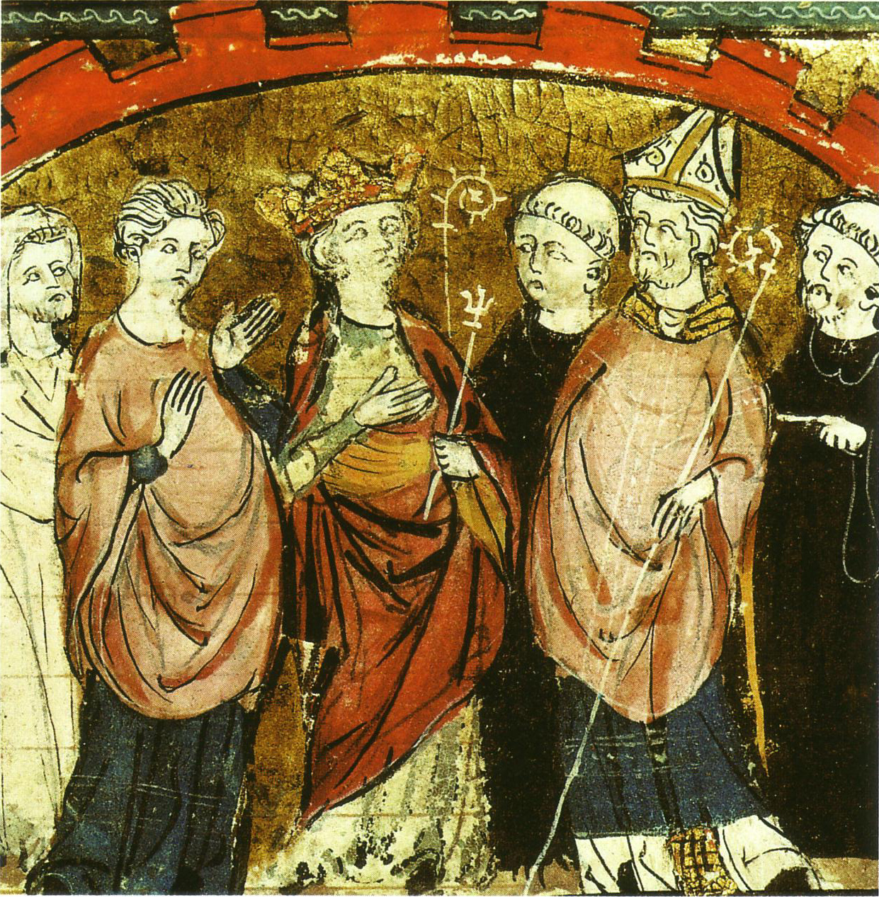 Abbot and monks of Saint-Denis before Dagobert. fol. 73.